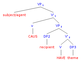 asdfsljf